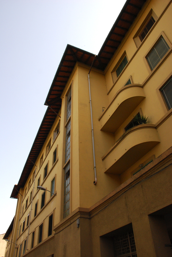 Case per indigenti (Houses for the needy), Florence, Italy. North side. Main Entrance.